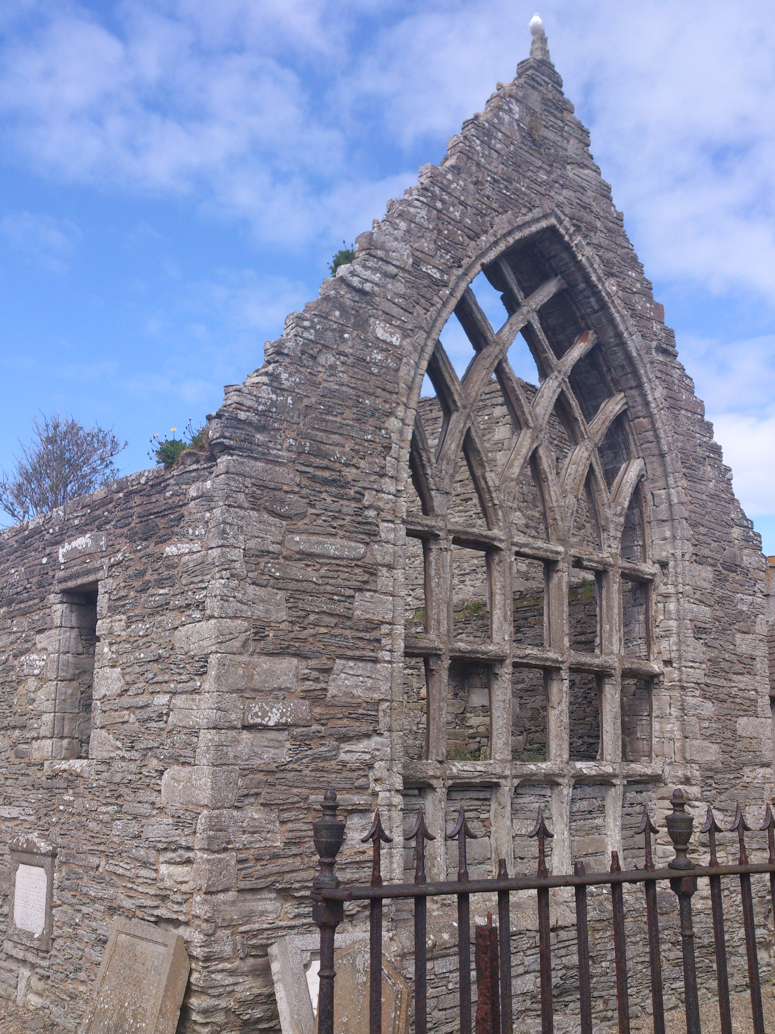 Founded 1220, closed 1832.